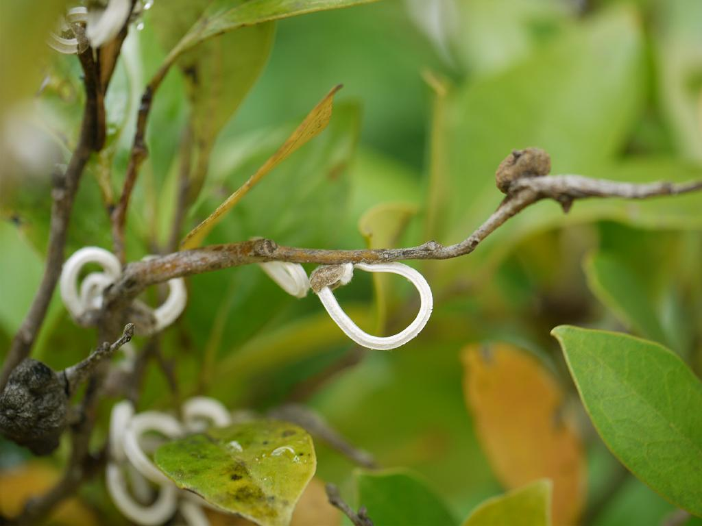 Takahasia japonica(Coccidae)